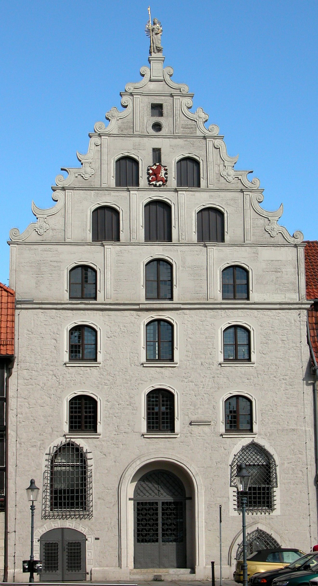 Braunschweig, Germany: Gewandhaus (Cloth Makers Hall), west facade.